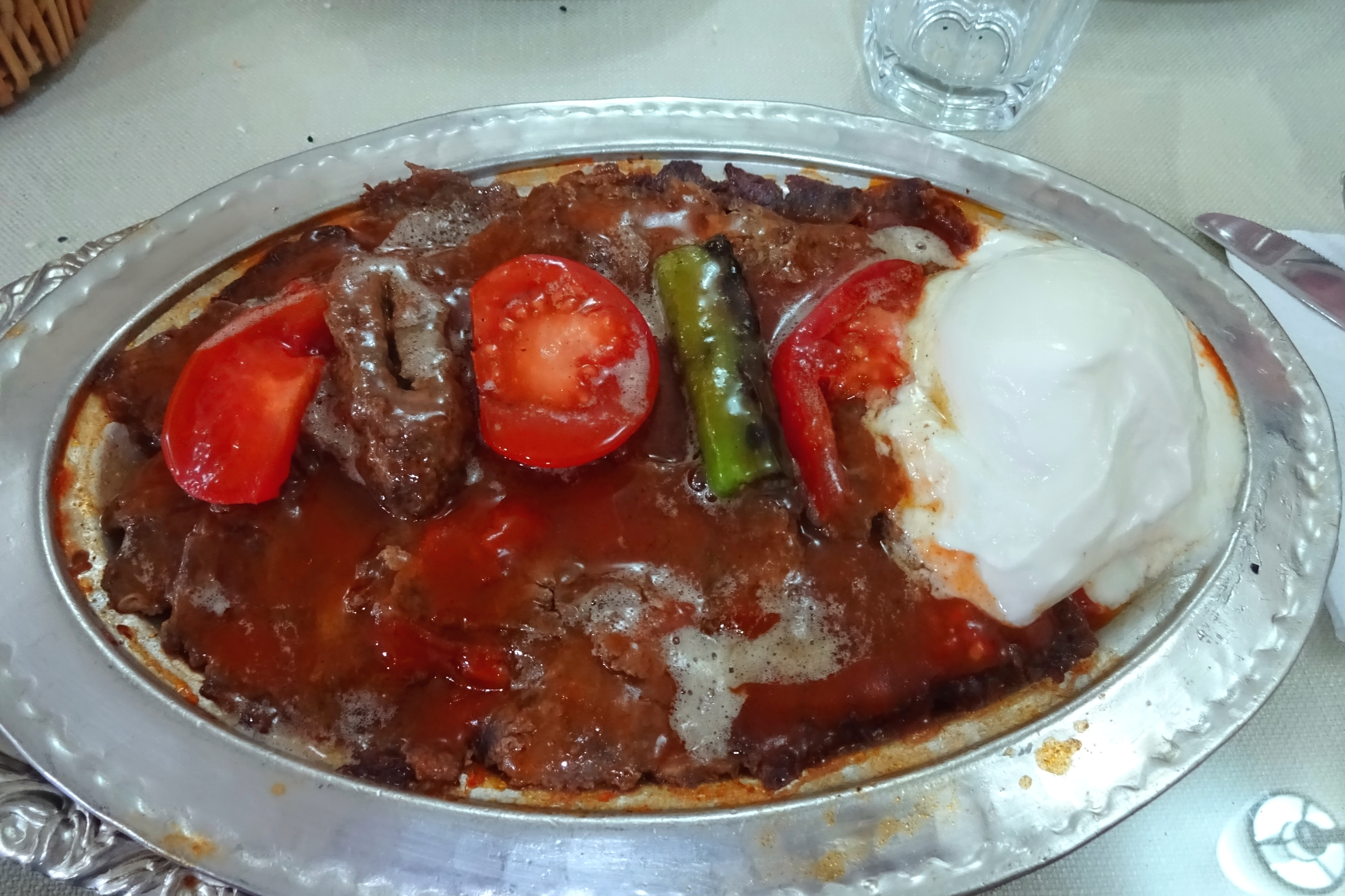 Iskender kebab, grilled on rotisserie lamb is served and thinly cut and with flatbread, yogurt, grilled peppers and tomatoes. At the table then doused with melted butter. Photographed in Bursa Iskender, Bahariye Cad. Süleymanpaşa 15, Kadıköy.